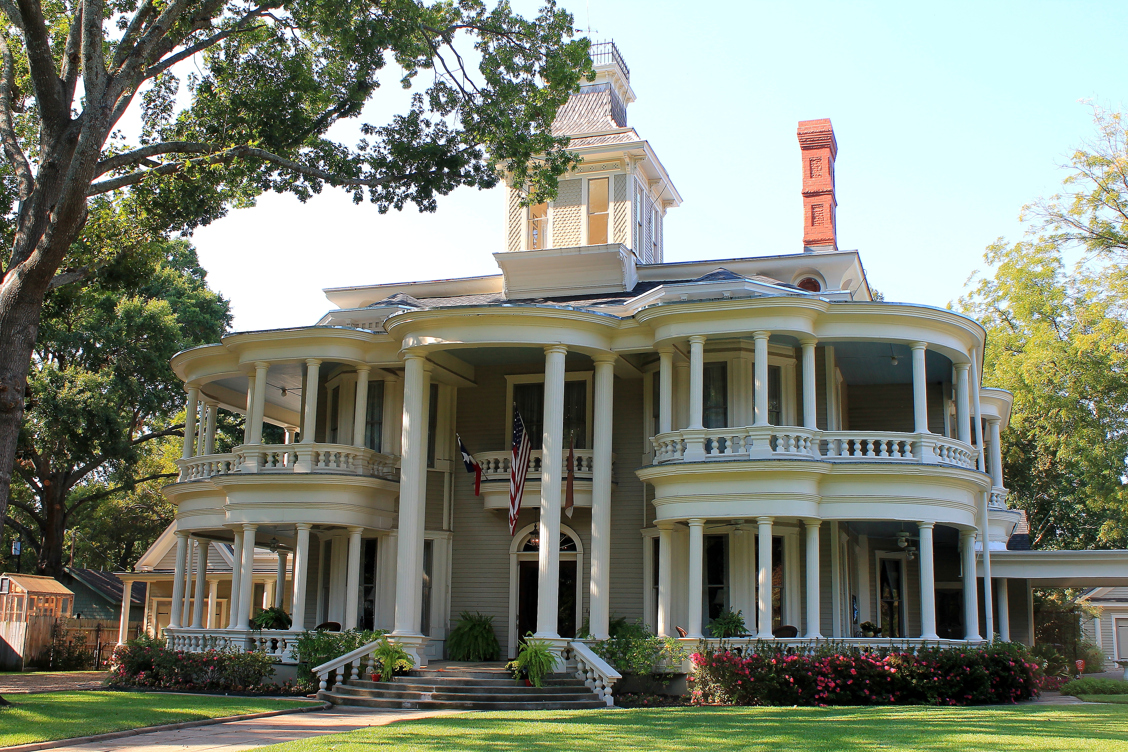 The Matthew Cartwright House — in Terrell, Texas. On the National Register of Historic Places in Kaufman County, Texas.